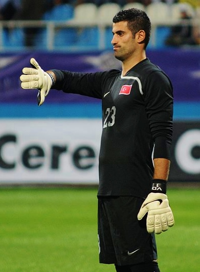 Volkan Demirel